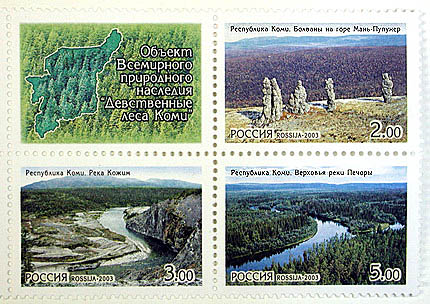 Virgin Forests of Komi, Postal Stamps of Russia, 2003.